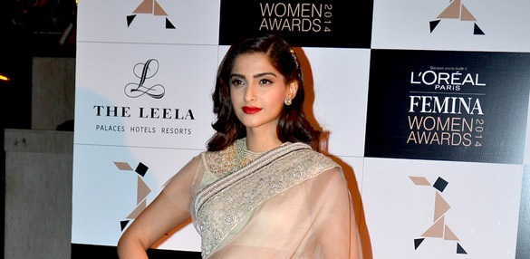 Sonam Kapoor at Loreal Paris Femina Women Awards 2014